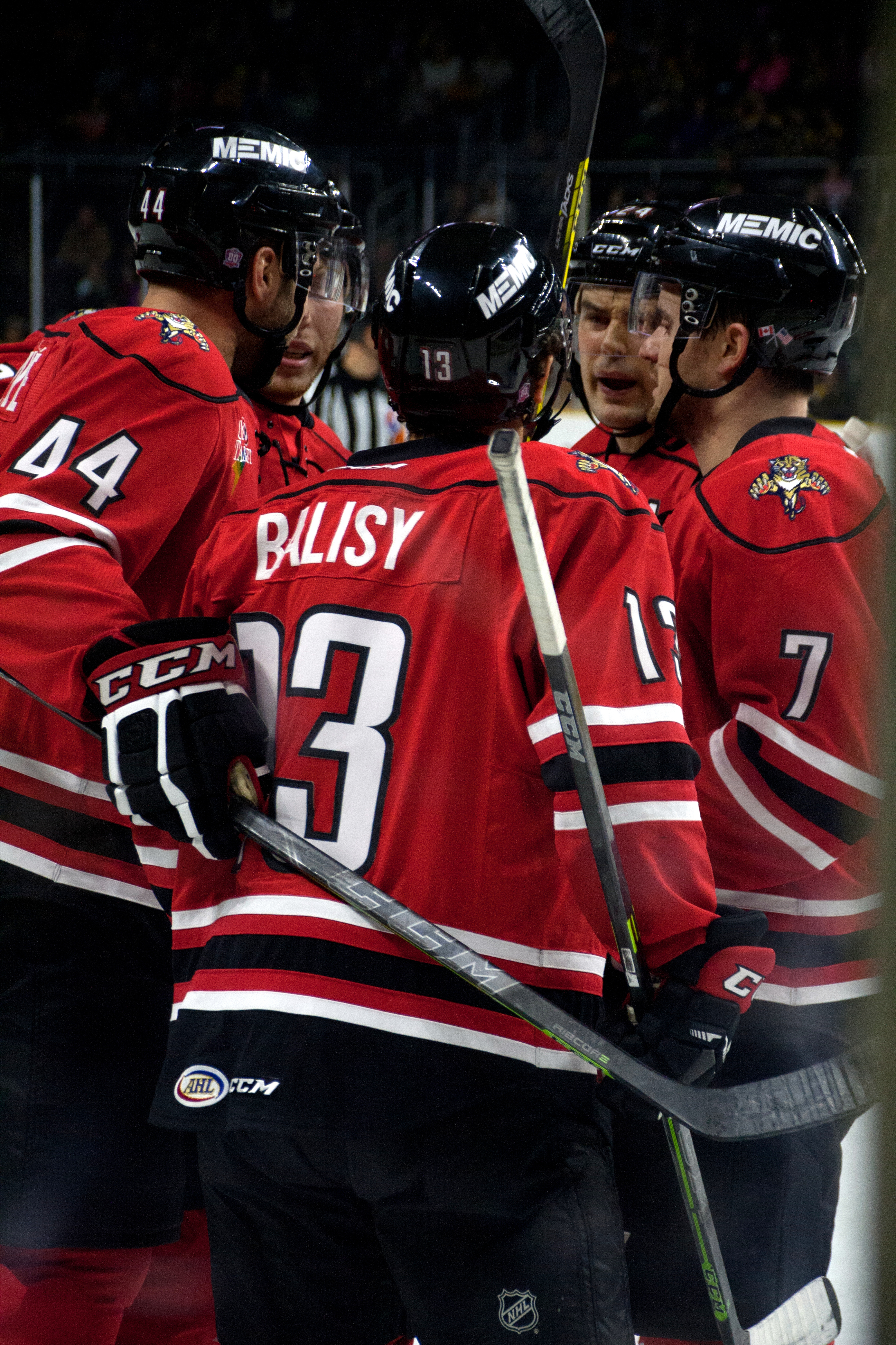 Chase Balisy with the Portland Pirates